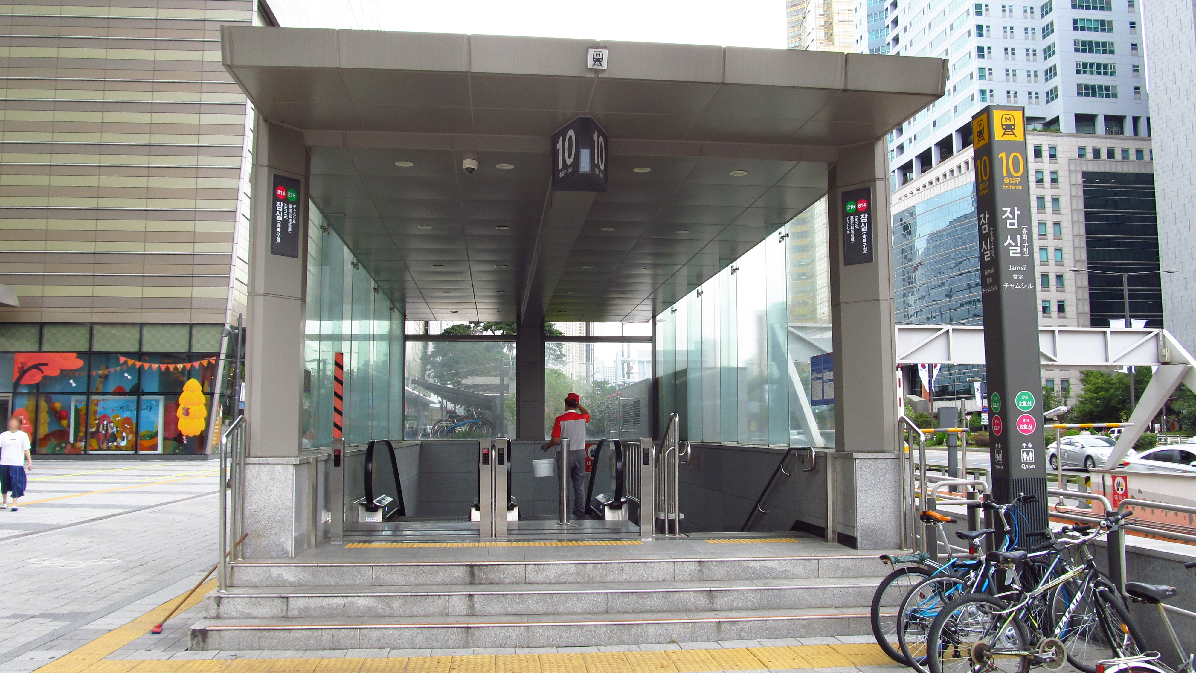 The no.10 entrance to Jamsil Station on the Seoul Metro Line 2, Line 8 in Songpa-gu, Seoul, Republic of Korea(South Korea)